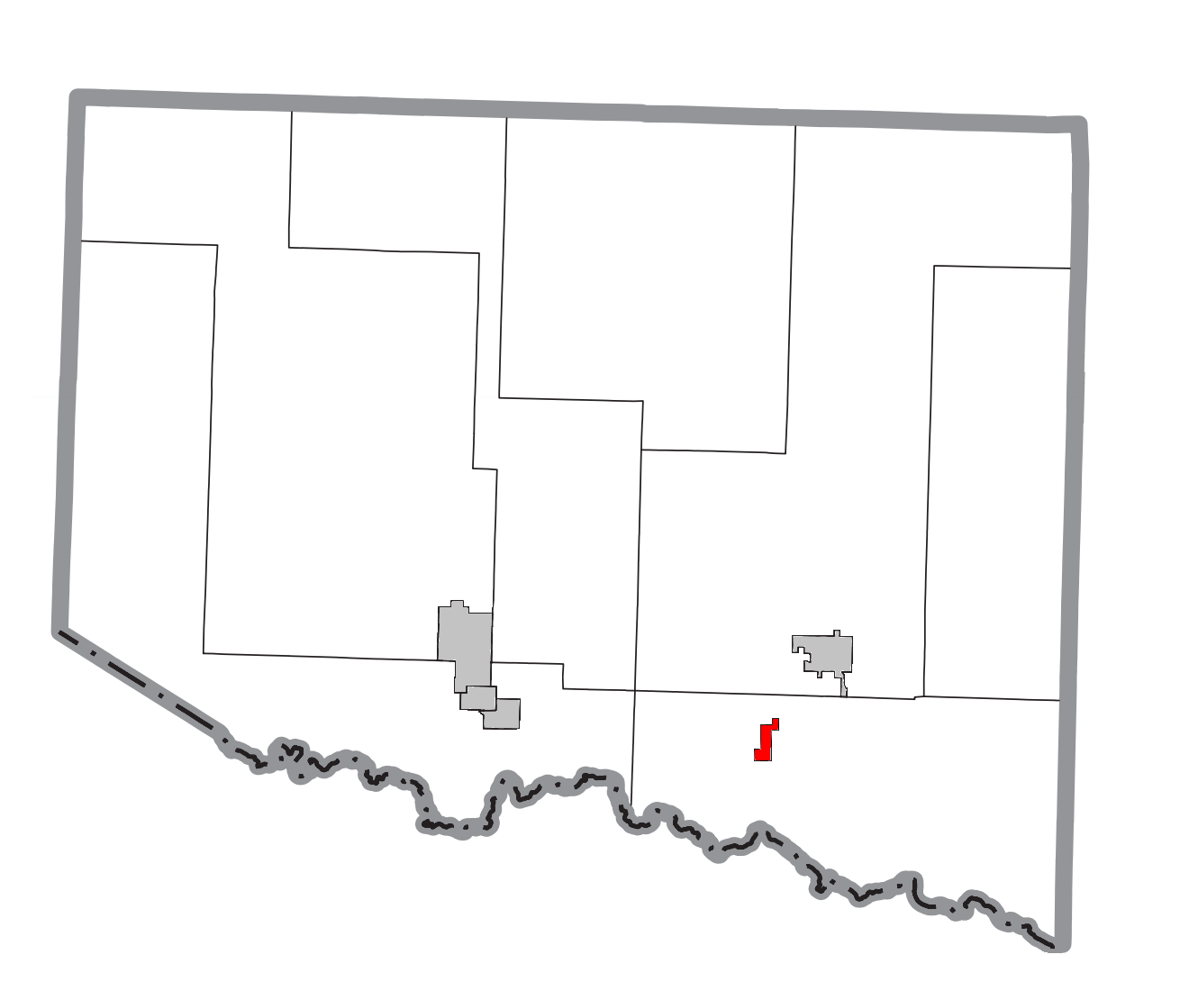 Alpha, MI